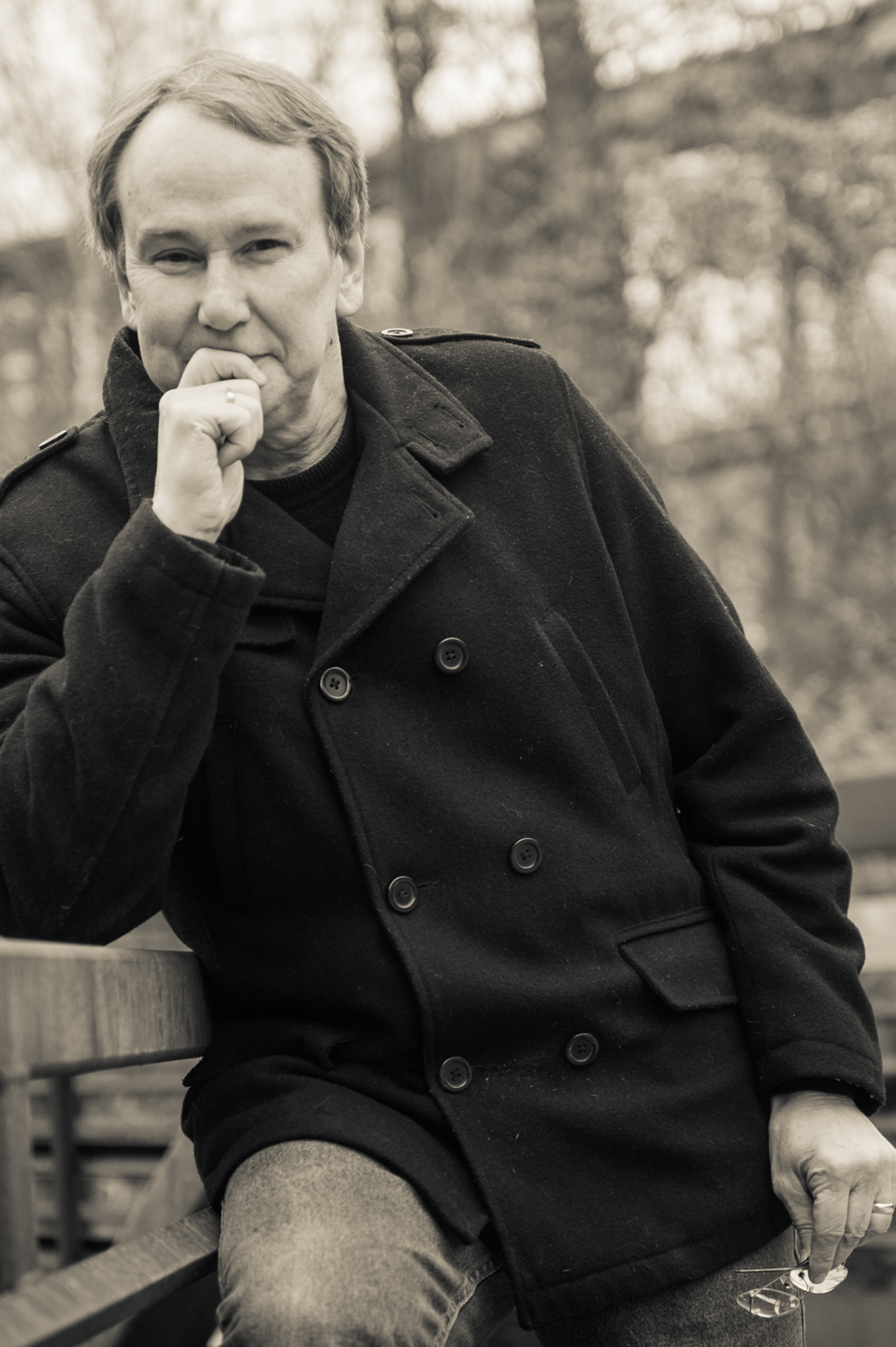 Photograph of Author Philip Lee Williams